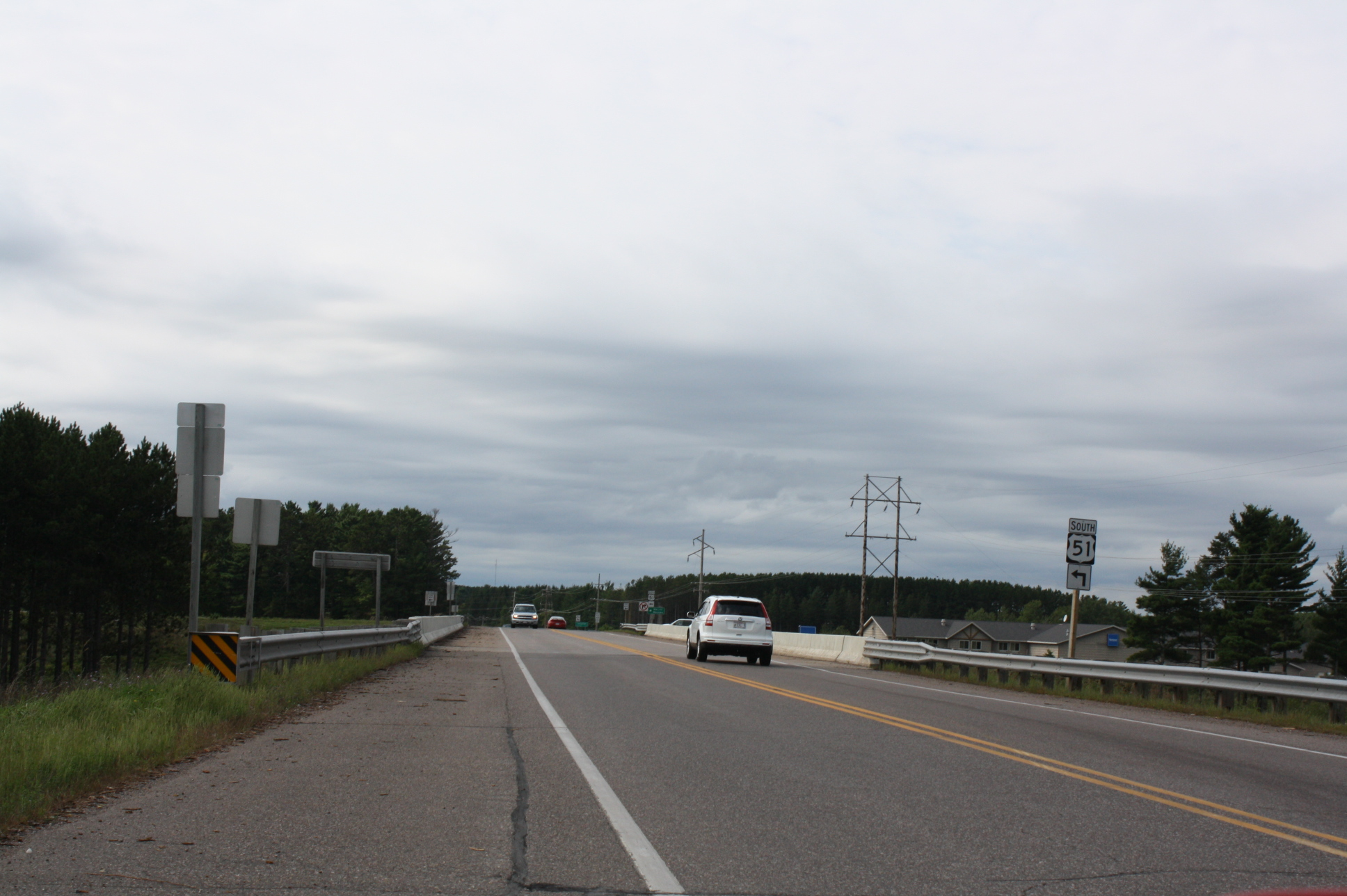 Looking west from the eastern terminus for Wisconsin Highway 86 from the U.S. Route 51 off-ramp near Tomahawk, Wisconsin.